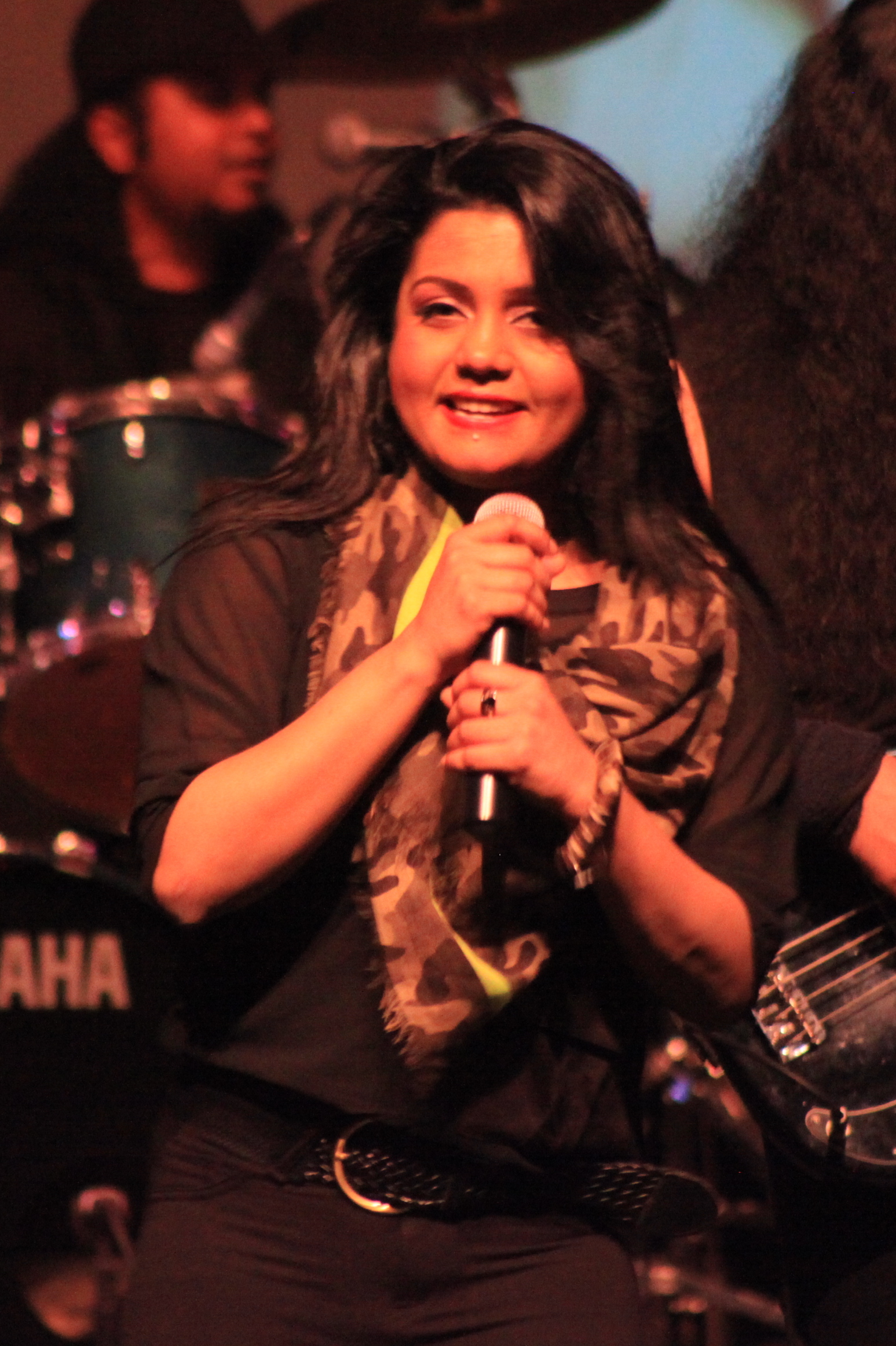 Mila Islam performs in Ohlone College, Fremont, California in an event organized by Bay Area Bangladesh Association